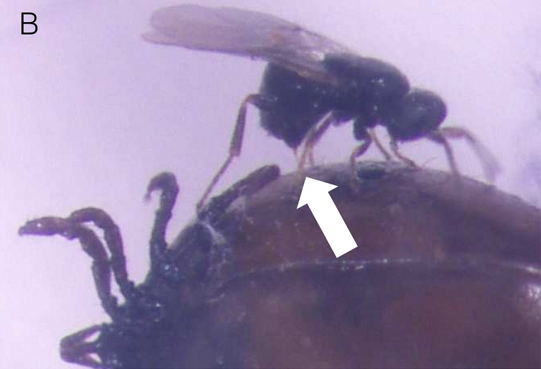 Ixodiphagus hookeri, female ovipositing in an engorged nymph of Ixodes ricinus